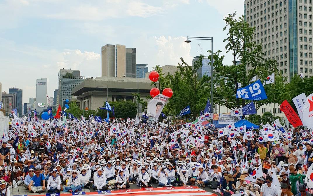 Approximately 27,500 protesters gathered in Gwanghwamun Plaza, Seoul, South Korea, calling for President Moon Jae-in to step down.